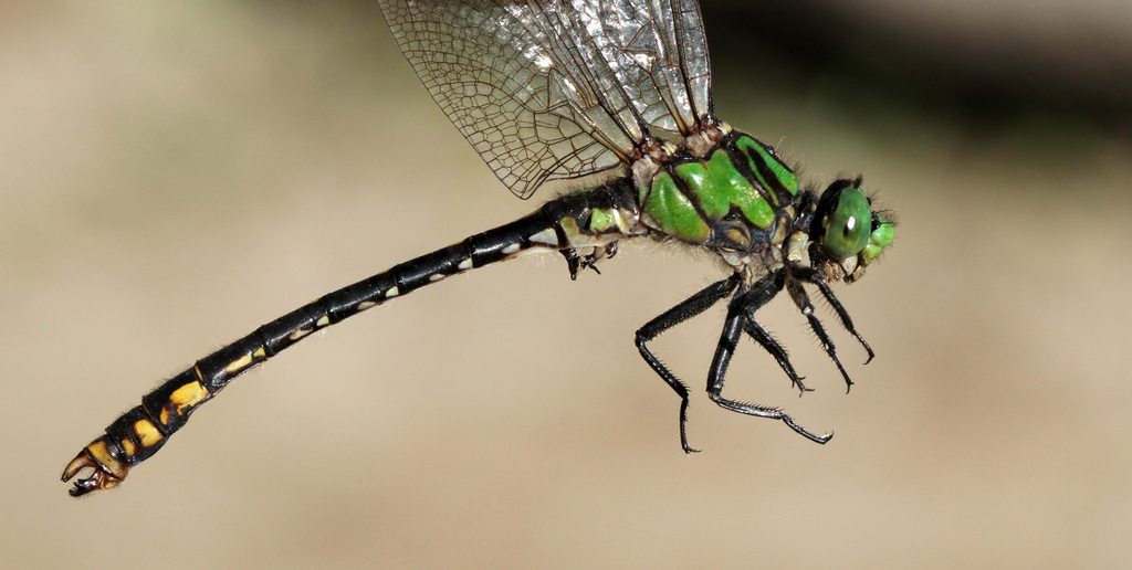 Maine Snaketail (Ophiogomphus mainensis), Parc r�gional des Appalaches, Saint-Just-de-Breteni�res, Montmagny, QC, Canada